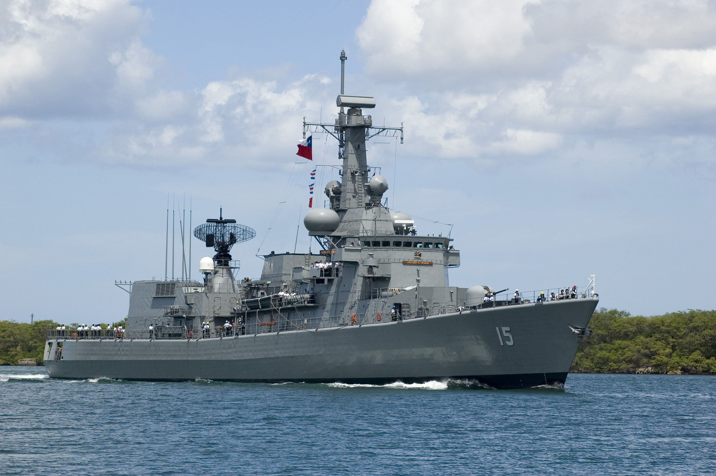 Pearl Harbor, Hawaii (June 23, 2006) - The Chilean Navy ship CS Almirante Blanco Encalada (FF-15) pulls into Pearl Harbor for a scheduled port call before starting Rim of the Pacific (RIMPAC) 2006. Eight nations are participating in RIMPAC, the world's largest biennial maritime exercise. Conducted in the waters off Hawaii, RIMPAC brings together military forces from Australia, Canada, Chile, Peru, Japan, the Republic of Korea, the United Kingdom and the United States.